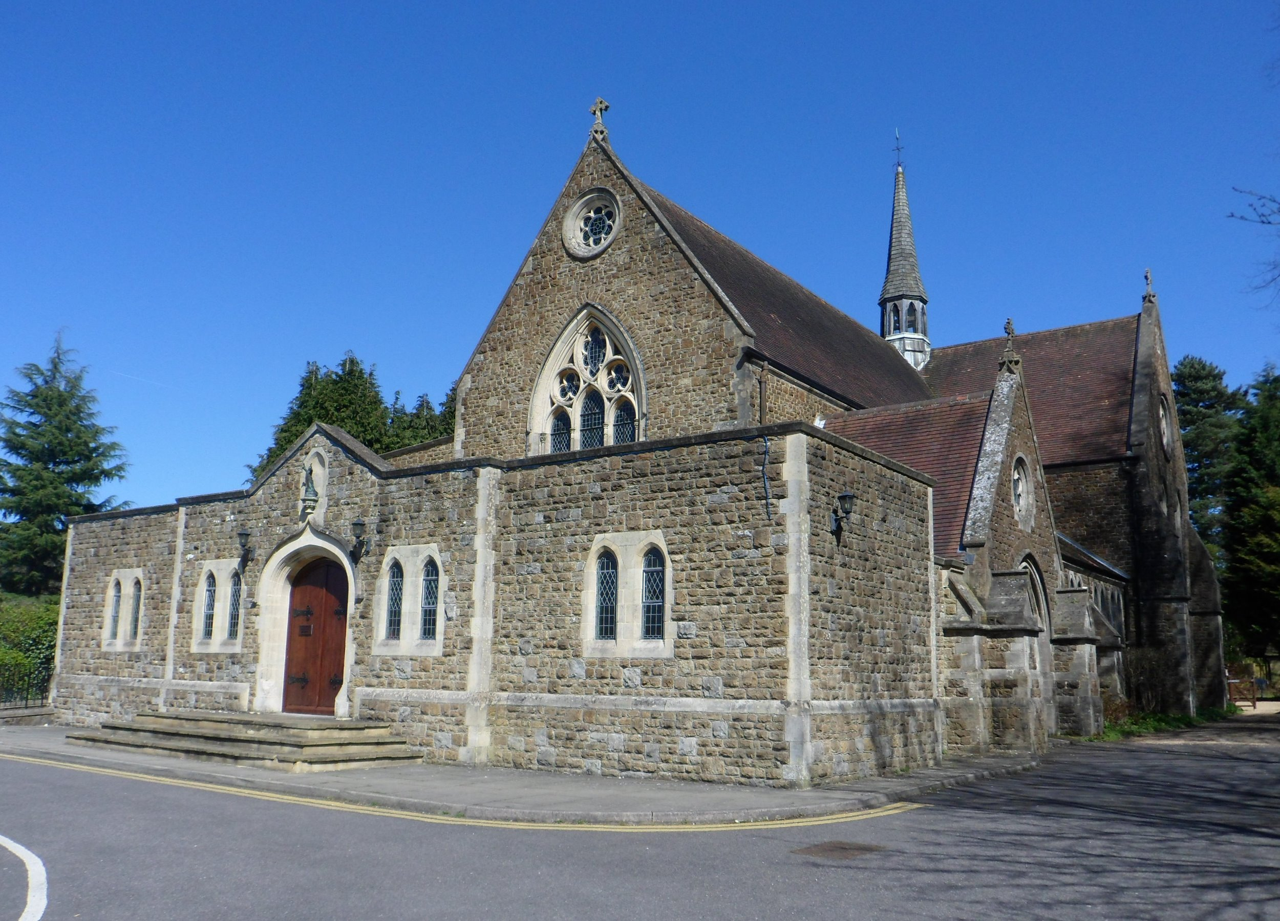 Church of the Sacred Heart, Essendene Road, Caterham, Tandridge District, Surrey, England. Listed at Grade II by English Heritage (NHLE Code 1294941)